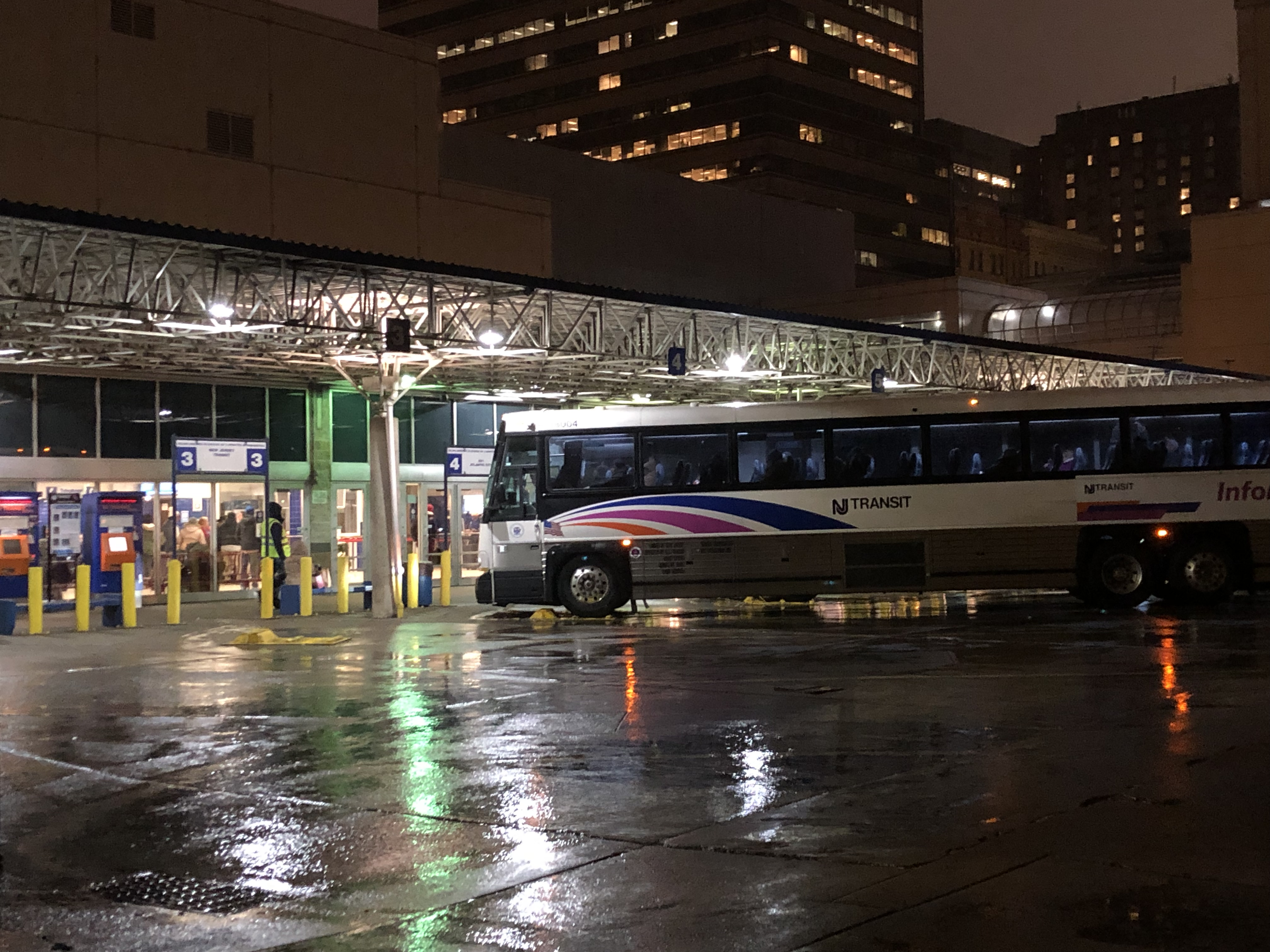 NJT bus Philadelphia